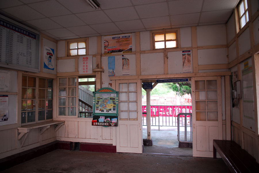 BaiShaTun Station is a local train station of Taiwan's Western main rail line. It's located within the boundary of TongSiao Town, Miaoli County. This photo shows the well-kept interior of the old station house built during the Japan Occupation Era.